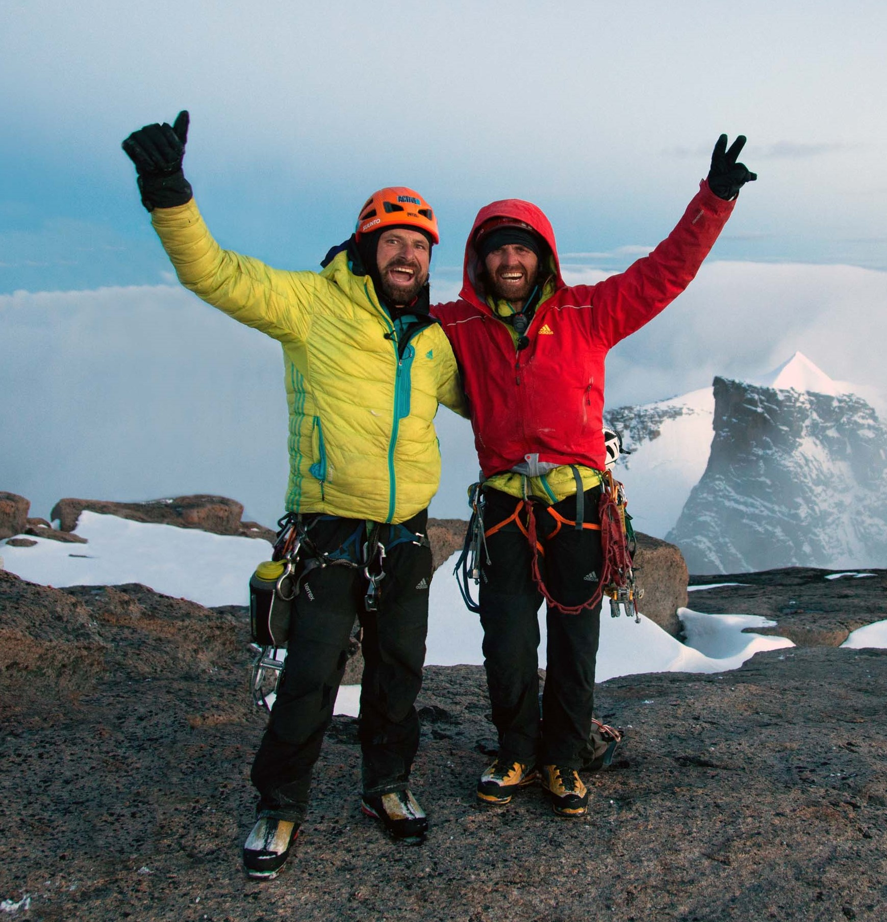 Huberbuam. Alexander and Thomas Huber at Mount Asgard.